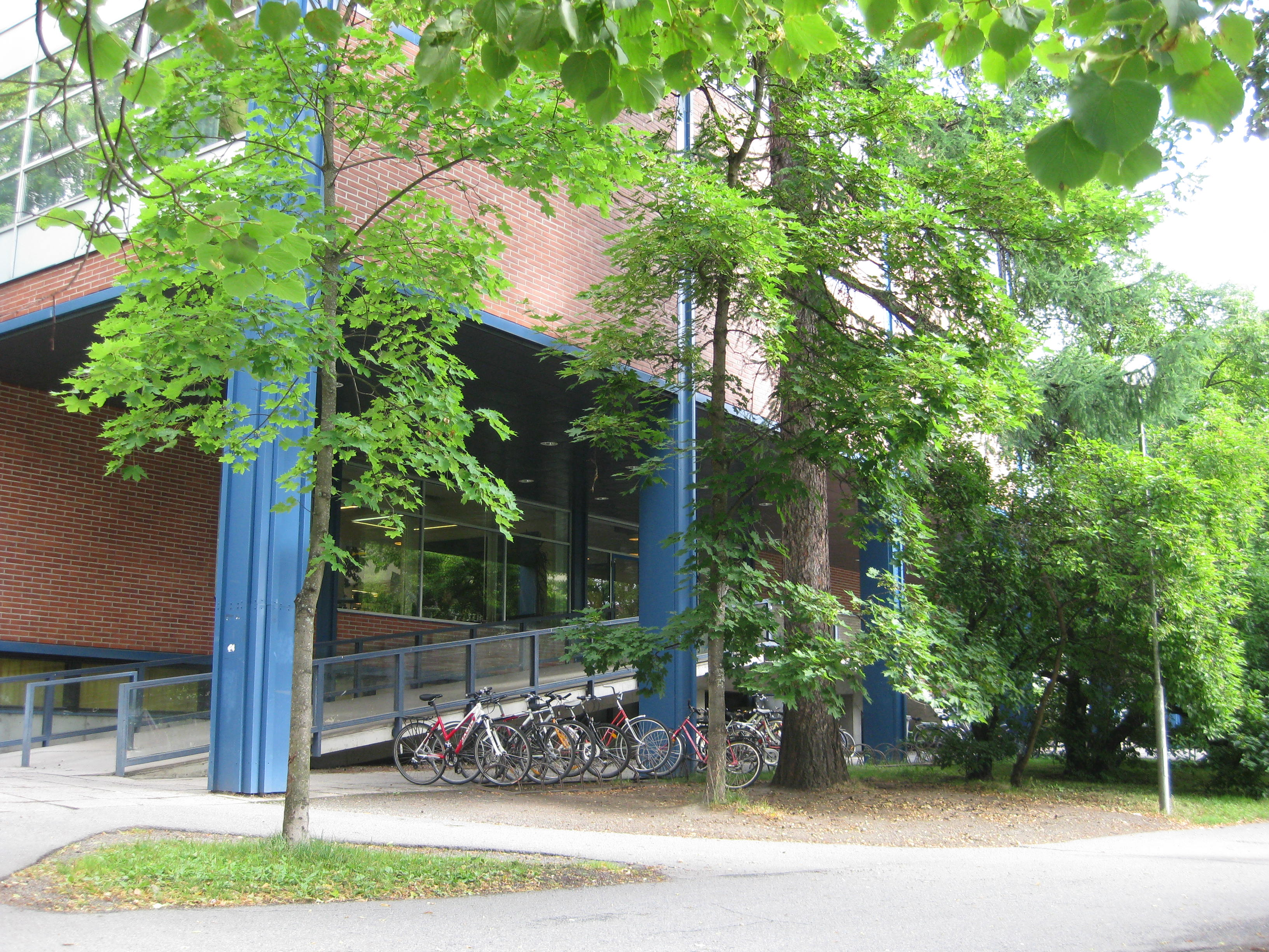 Library of University of Jyväskylä designed by Arto Sipinen and built in 1974